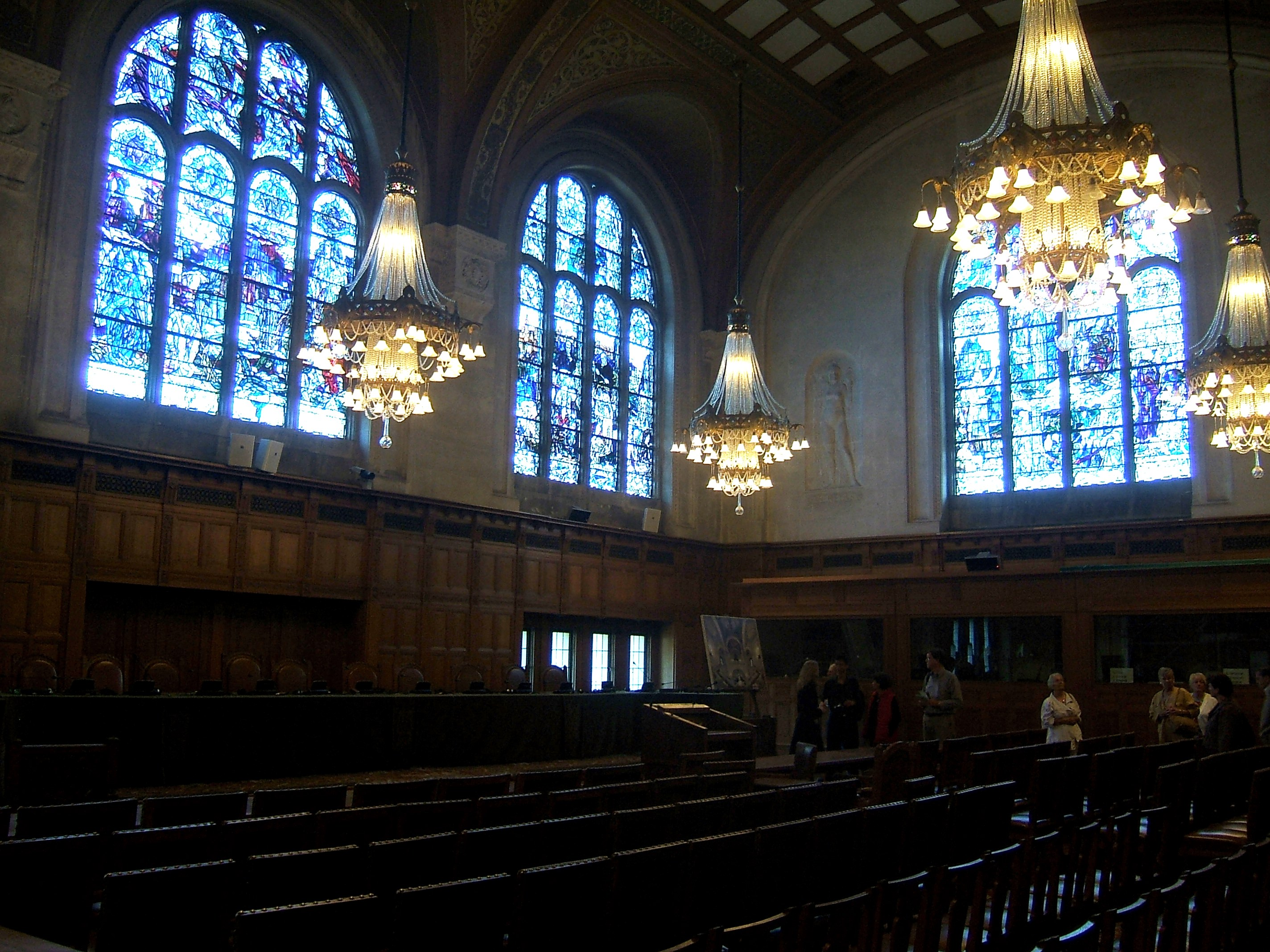 Peace Palace's courtroom in Den Haag at European Heritage Open Days.